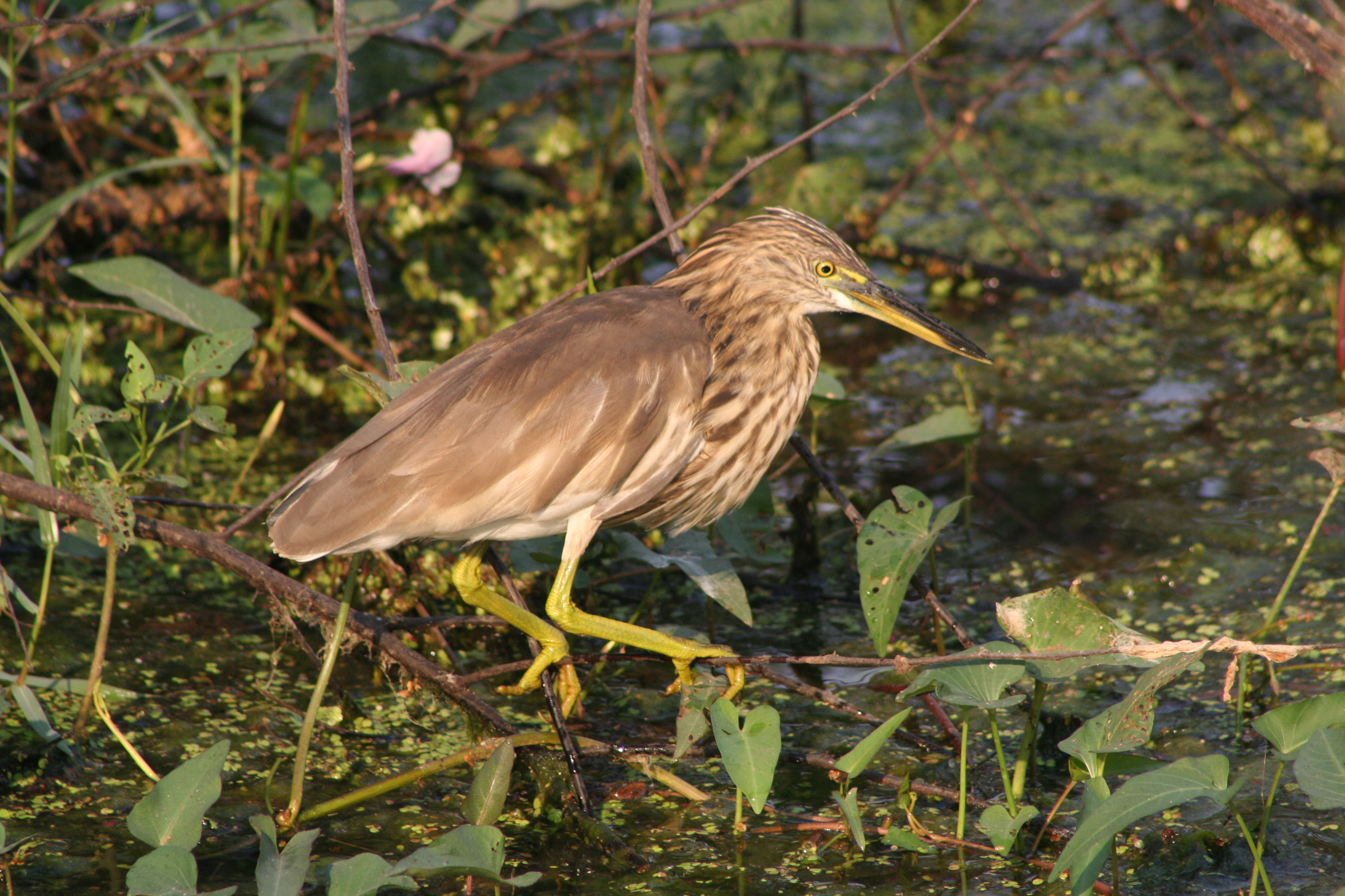 Indian Pond Heron Ardeola grayii. Photo taken at Keoladeo National Park, Rajasthan, India.